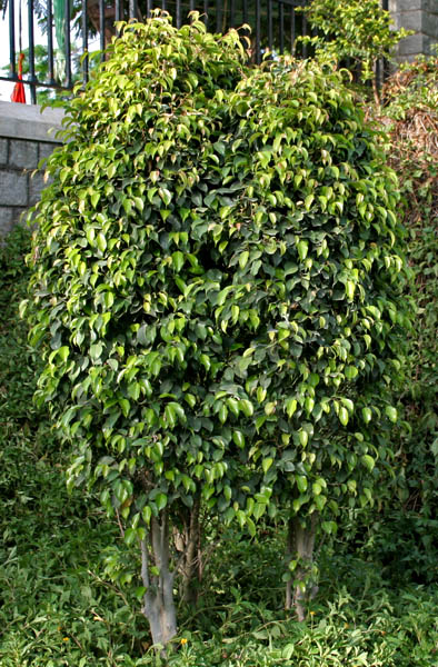 Weeping Fig Ficus benjamina in Hyderabad , India.